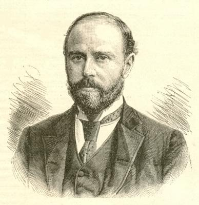 Isidor Gunsberg from Hans von Minckwitz’s column 1890